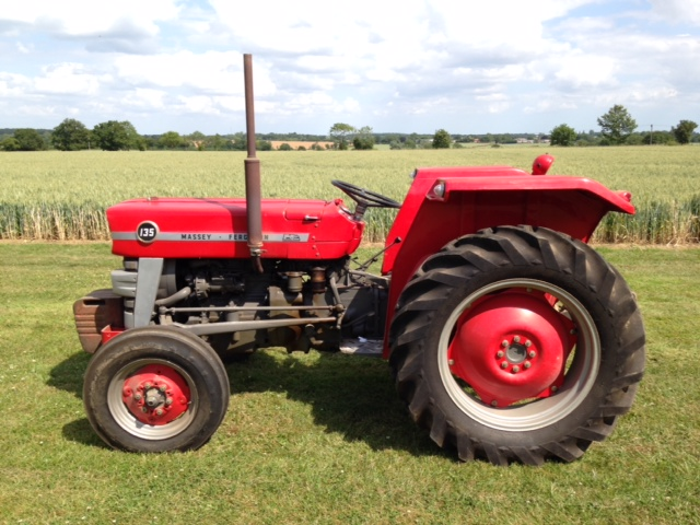 A 1965 Massey Ferguson MF135 - side view